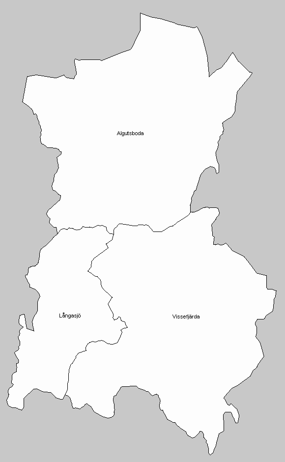 Parishes in Emmaboda municipality